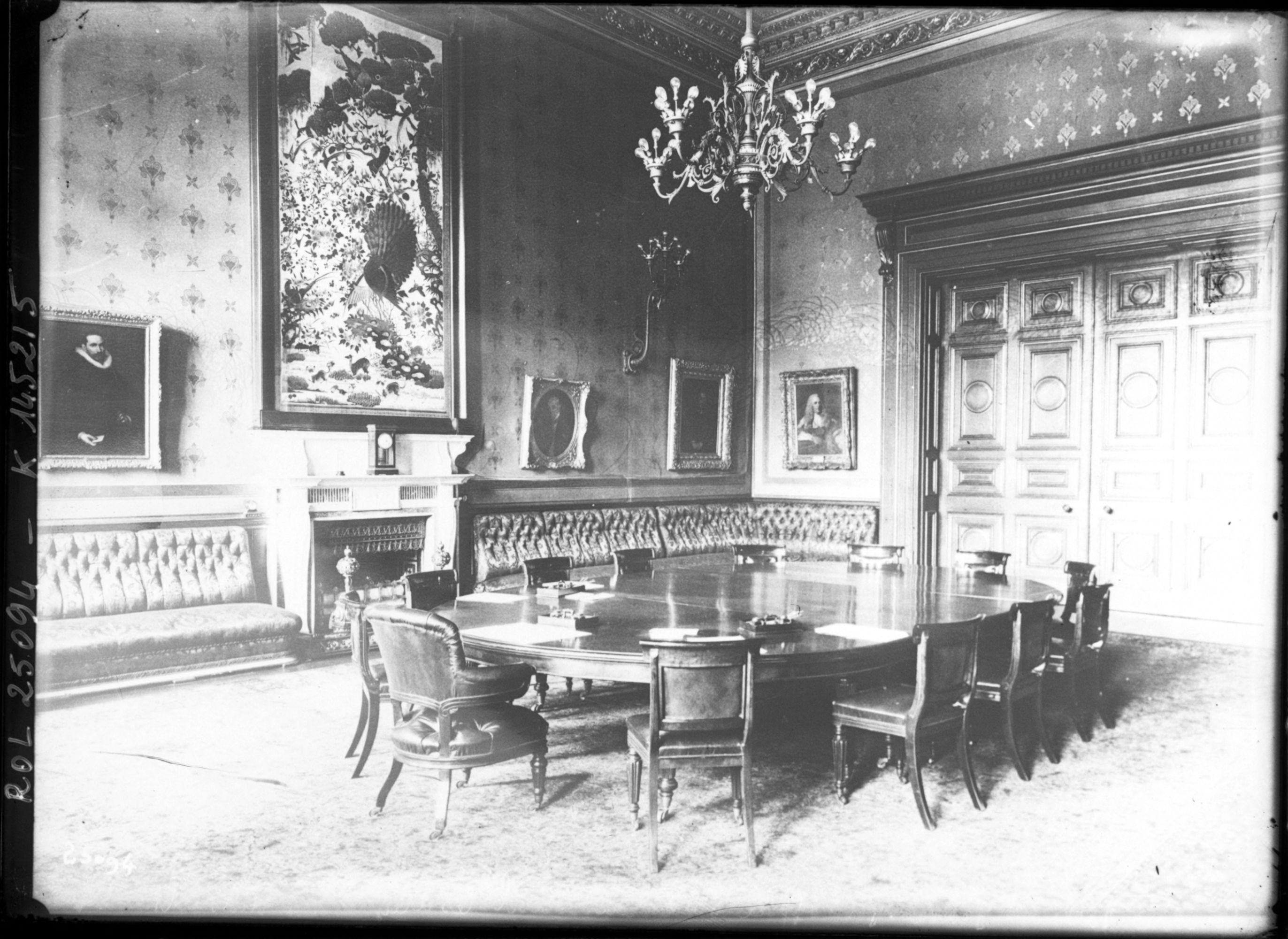 Conference room of the London Conference of 1912–1913